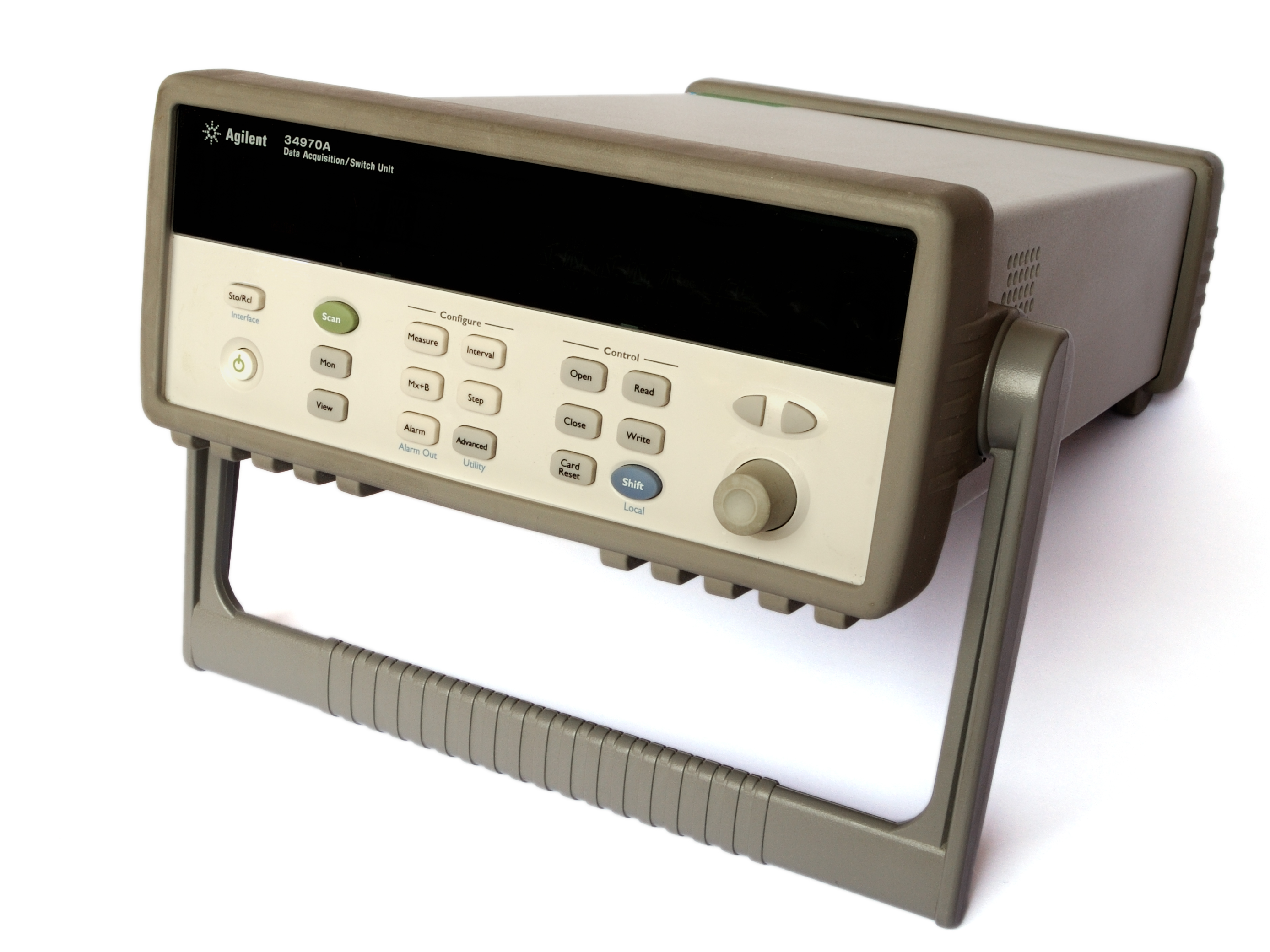 Agilent 34970A Data Acquisition and Control Unit. The three-slot main frame includes a built-in 6.5-digit digital multimeter. It enables the data acquisition and general-purpose switching and control applications by means of a variety of plug-in modules. See also rear side and plug-in unit.